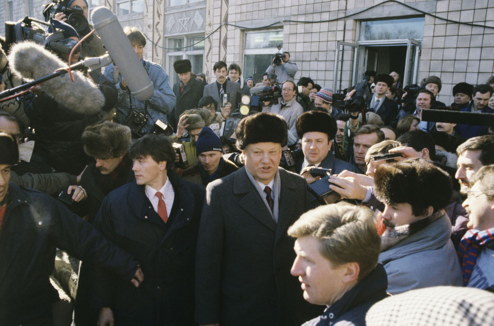 “Boris Yeltsin”. Boris Yeltsin, Chairman of the Supreme Soviet of the Russian SFSR, surrounded by journalists near a polling station during a referendum on the future of the Soviet Union.